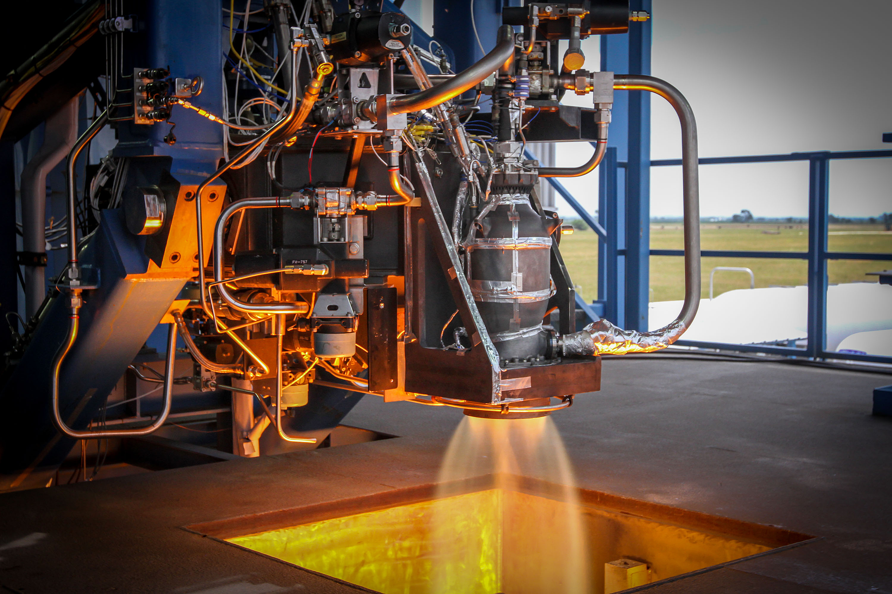 A SpaceX SuperDraco engine is hot-fired at the company's test facility in McGregor, Texas. SpaceX is developing its Crew Dragon spacecraft and Falcon 9 rocket in partnership with NASA’s Commercial Crew Program to carry astronauts to and from the International Space Station.